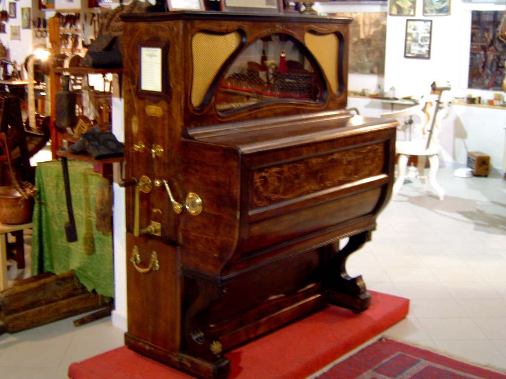 Jukebox